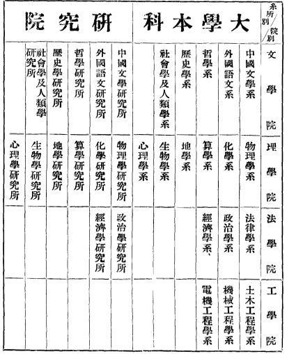 The Departments of Tsinghua University, in 1934